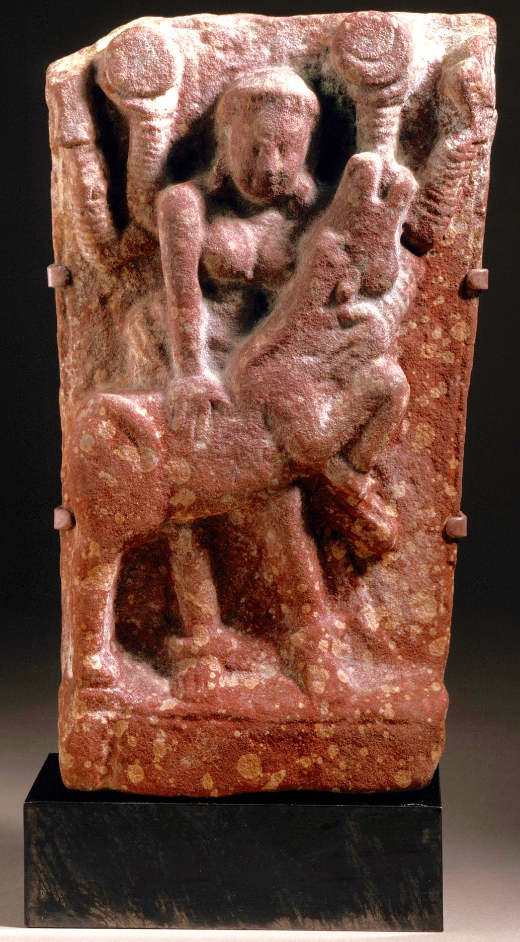 Derivative work of the following image available on wikimedia commons under Creative Commons license: File:Durga Slaying the Buffalo Demon LACMA M.84.153.1.jpg For scholarly commentary on this sculpture: Pratapaditya Pal, Indian Sculpture: Circa 500 B.C.-A.D. 700, University of California Press, ISBN 978-0-520-05991-7, page 27